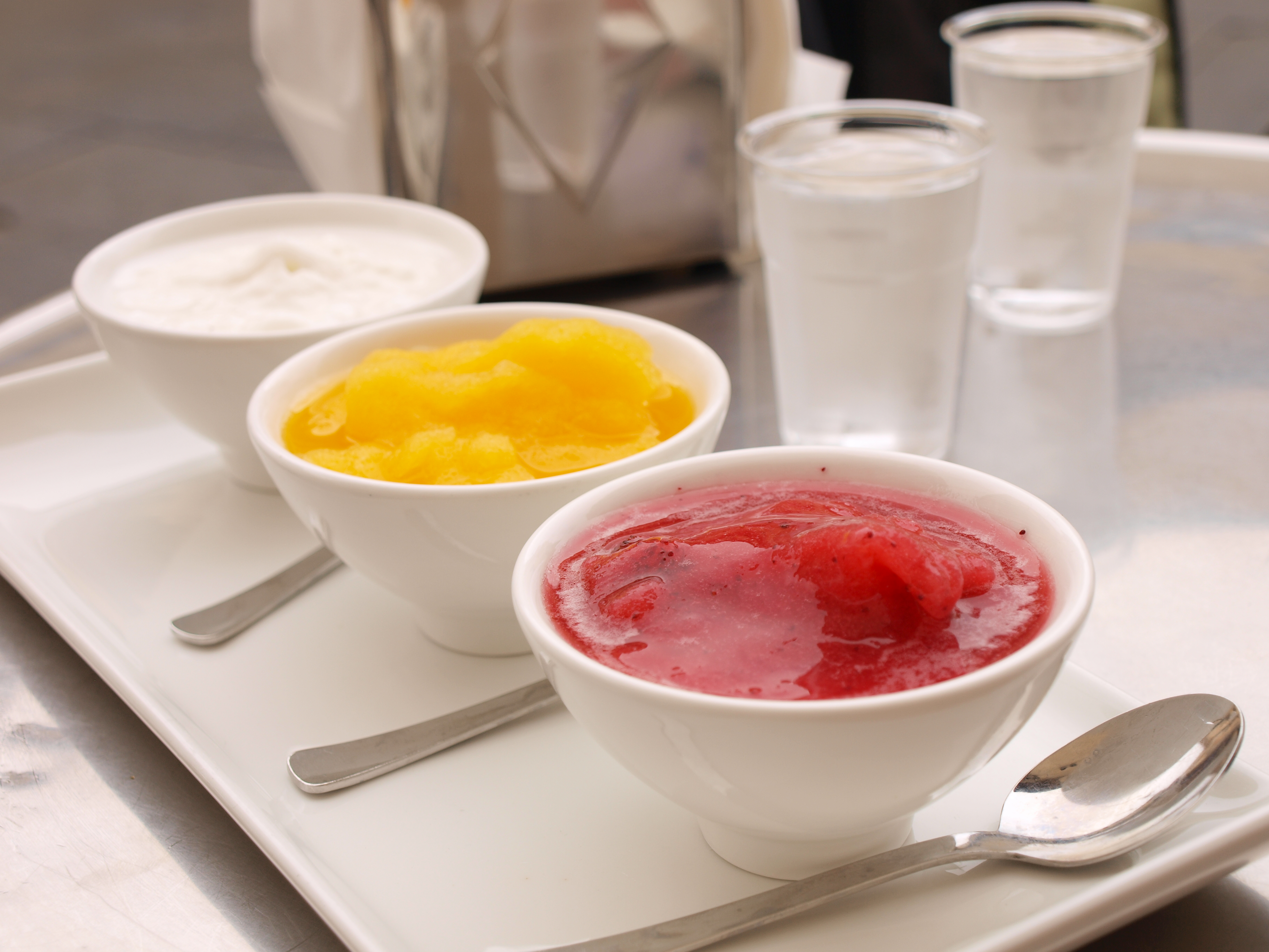 A trio of granite, a sicilian frozen dessert photographed in Noto, Sicily.